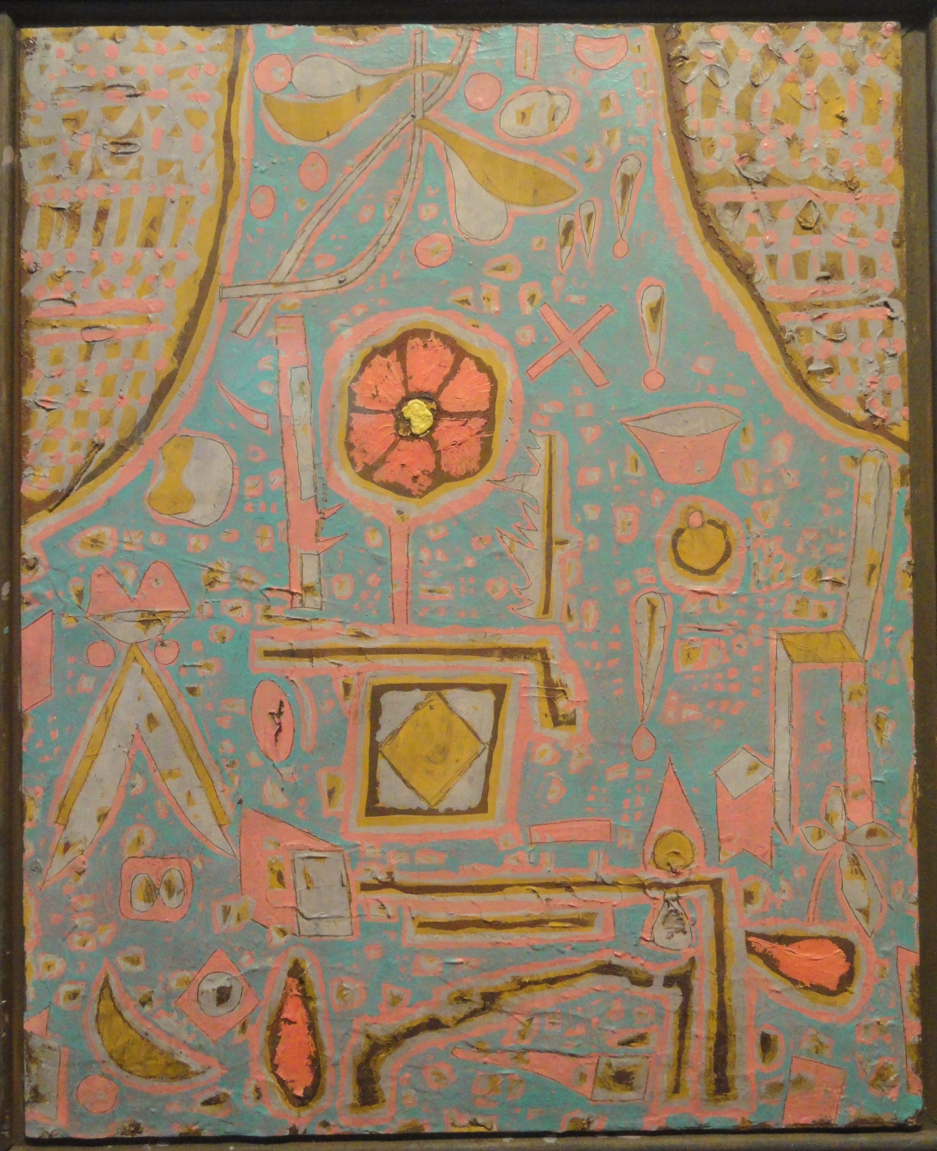 Efflorescence, Paul Klee, 1937, oil and pencil on cardboard. Phillips Collection, Washington, DC, USA. This artwork is in the public domain because the artist died more than 70 years ago.